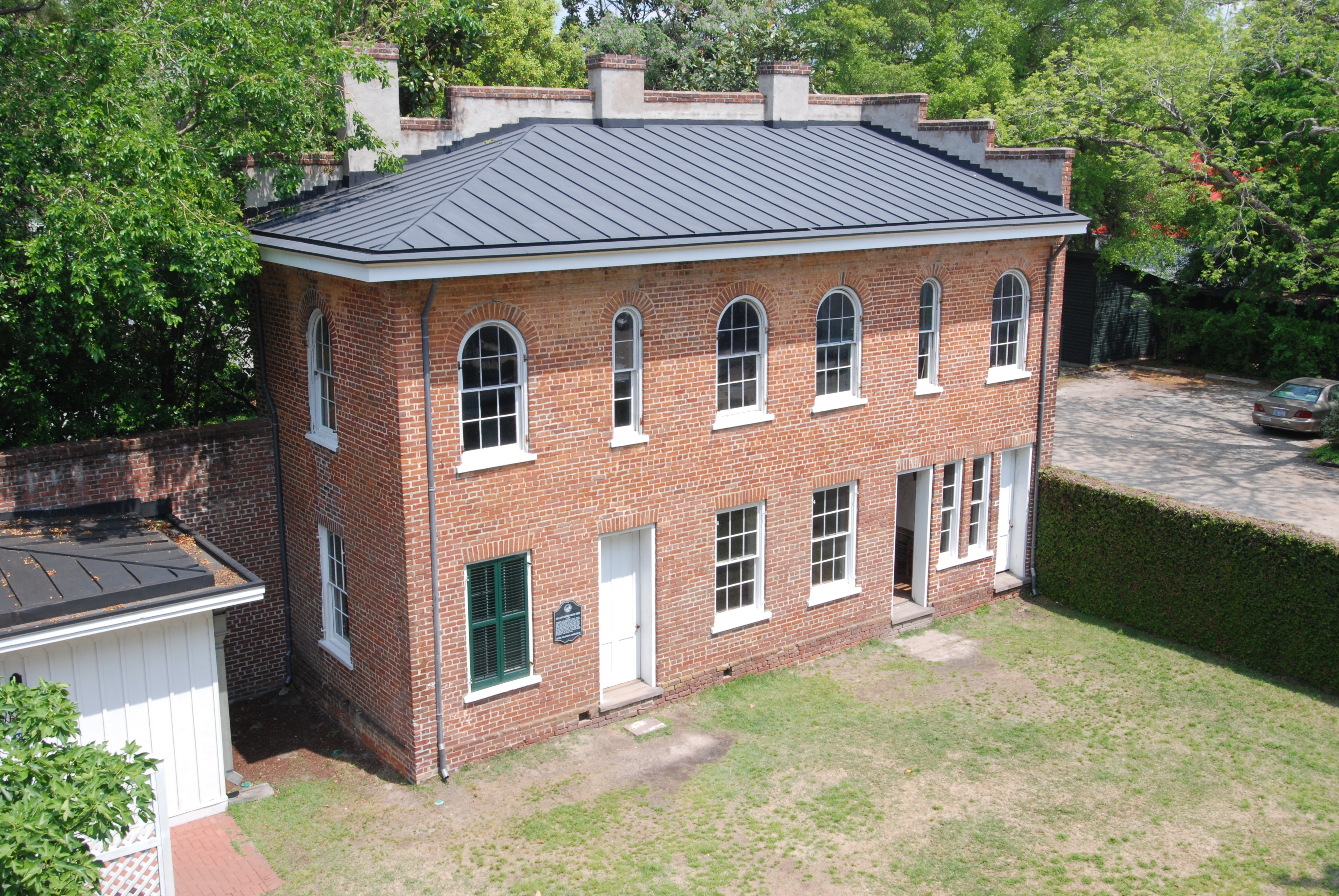 The renovated slave quarters at the Bellamy Mansion, Wilmington, NC.